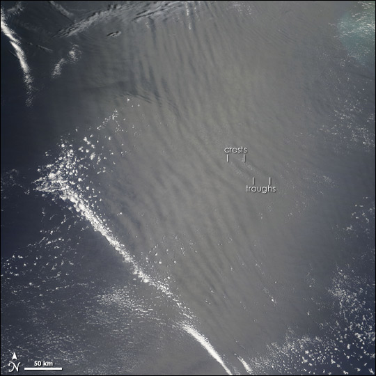 Satellite image of atmospheric gravity waves over the Arabian Sea. Their visibility is due to sunglint, caused by the "impression" of the atmospheric waves on the sea surface.